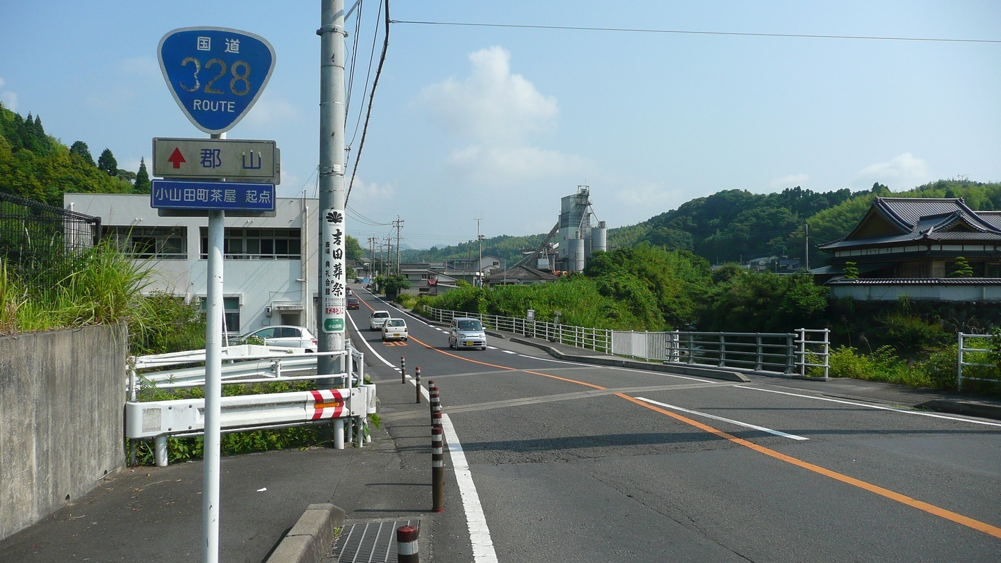 National Route 328 Origin (Kagoshima City, Japan)